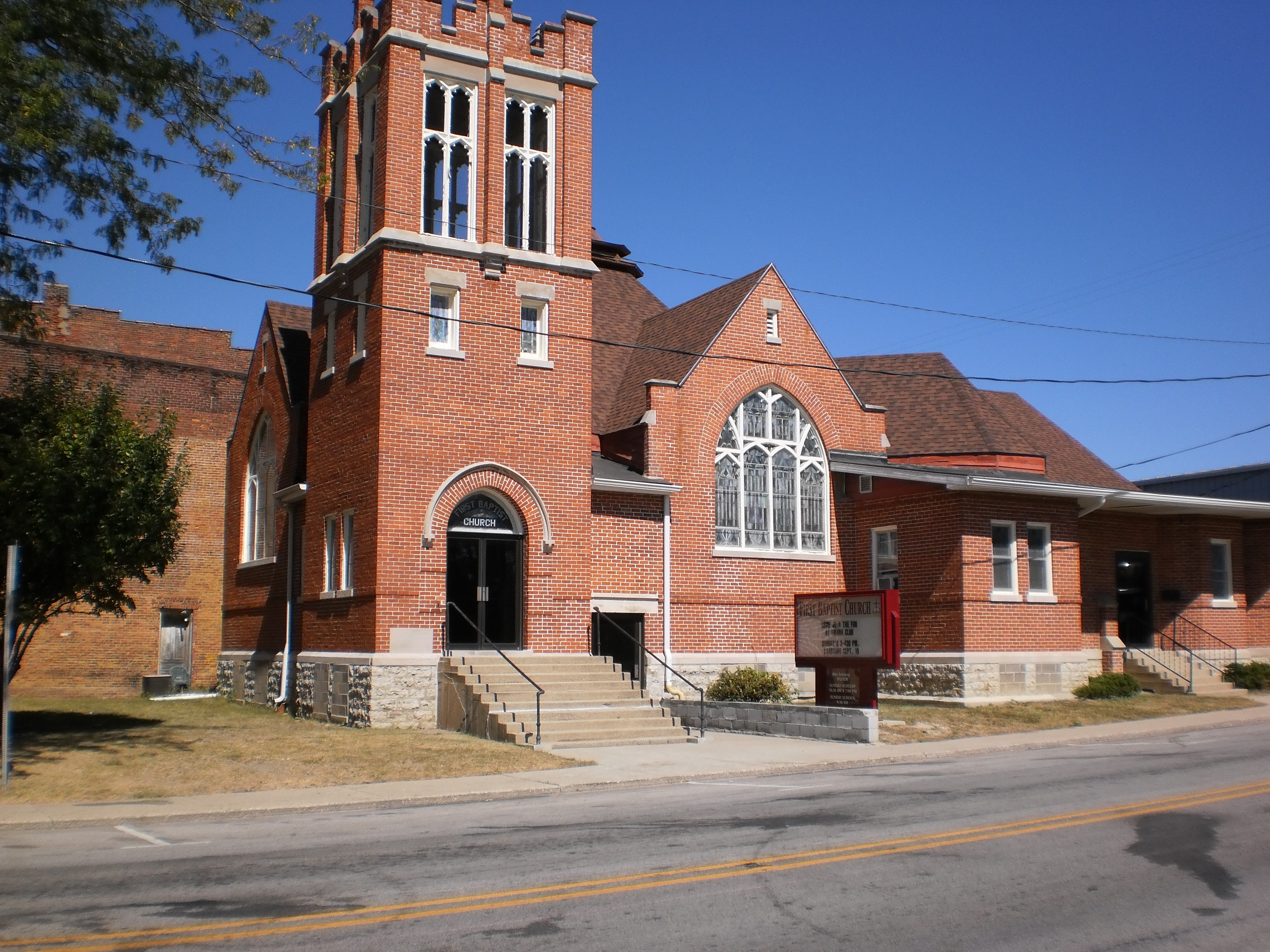 First Baptist Church, located in downtown Montpelier, Indiana.